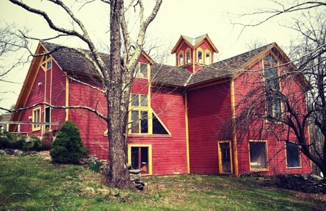 Barn used by the band The Narrative in the recordings of their second full lenght album "Chasing a Feeling" at Update New York, Hunter in 2012.